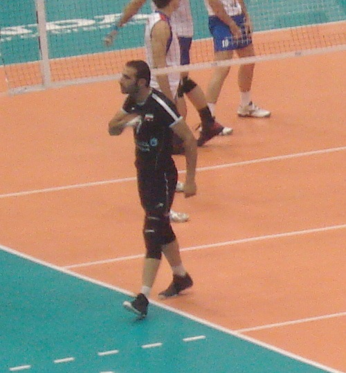 Hamzeh Zarini, Iran-Serbia match, 2013 World League First Round